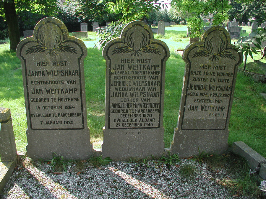 Grafsteen van Jan Weitkamp in Kerkhof Nijenstede